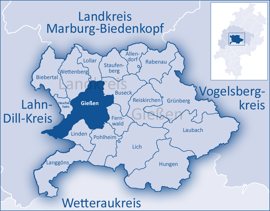 The map shows a district in the area of Gießen (district)